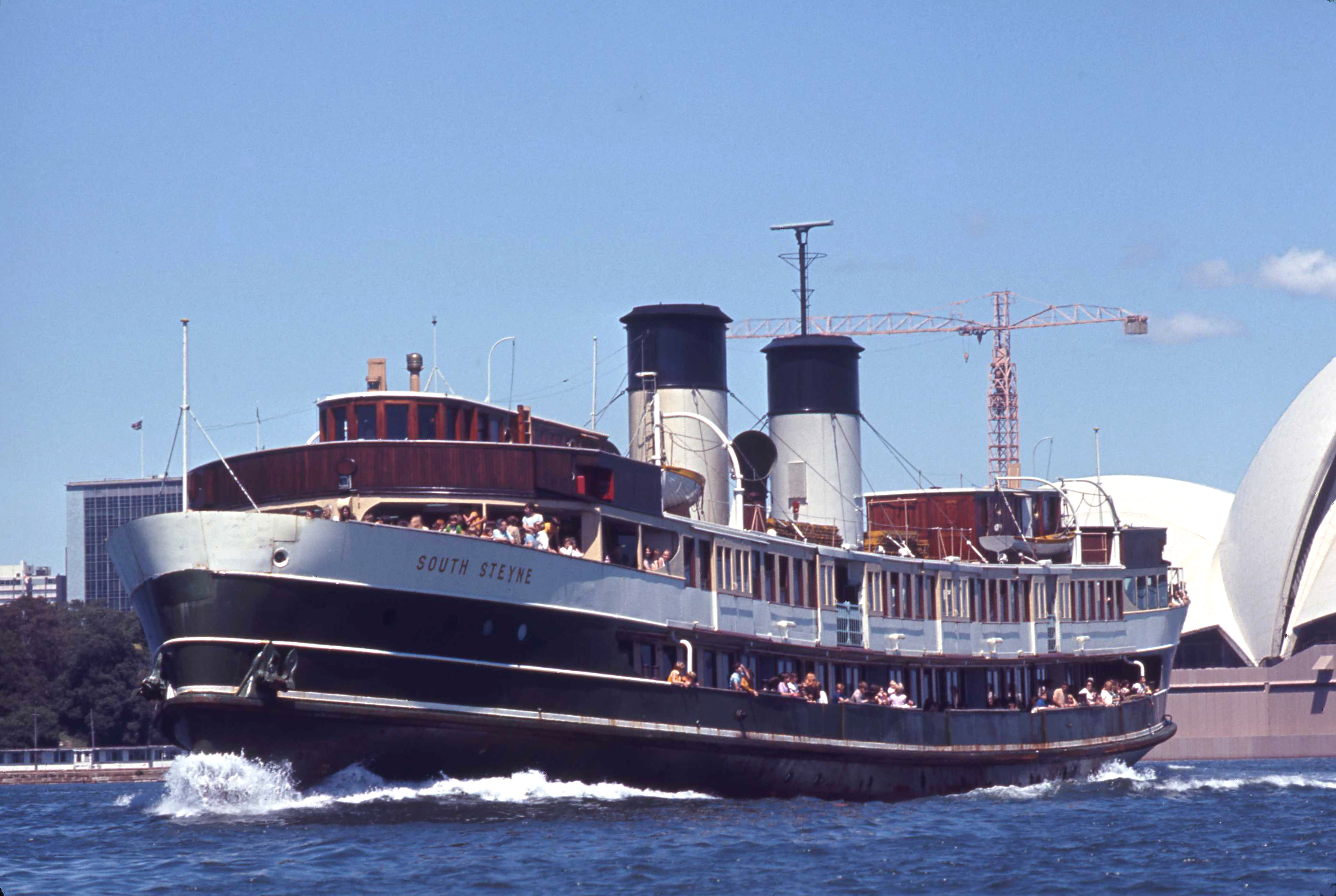 Sydney Ferry SOUTH STEYNE (built 1938) near Sydney Opera House, 30 Dec 1970. John Ward, John Ward Collection - Shipping (30/12/1970), [A-01076629]. City of Sydney Archives, accessed 22 Feb 2020